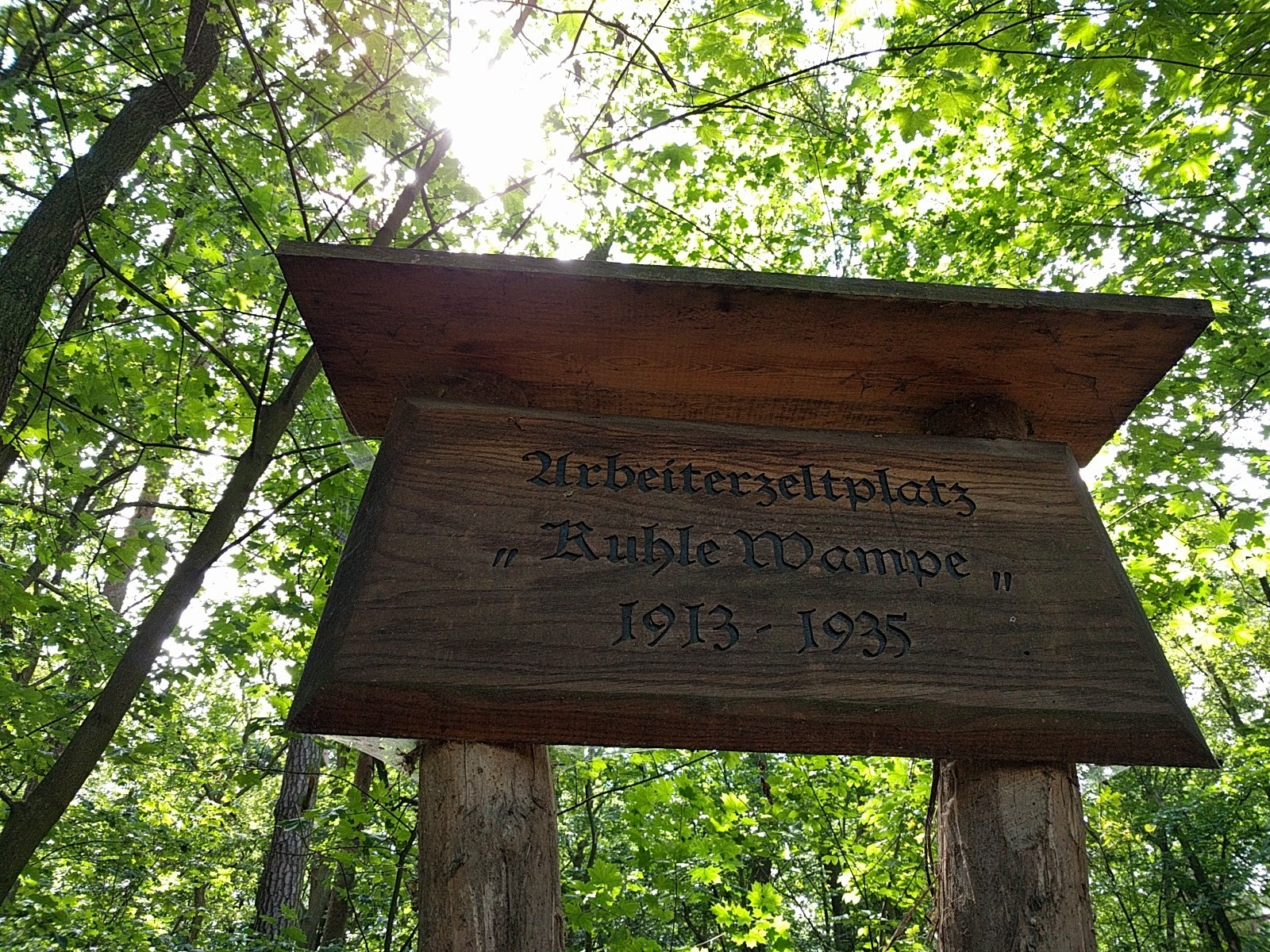 The sign: Arbeiterzeltplatz (workers' tentground) "Kuhlewampe" 1913-1935, on the southern bank of the Müggelsee in Berlin. Here were scenes shot for the movie: Kuhlewampe or: Who owns the world?